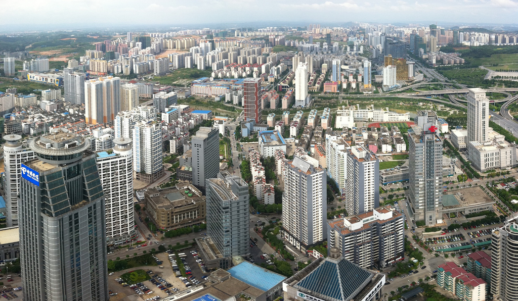 New city center seen from the highest building in Nanning (est.280m)